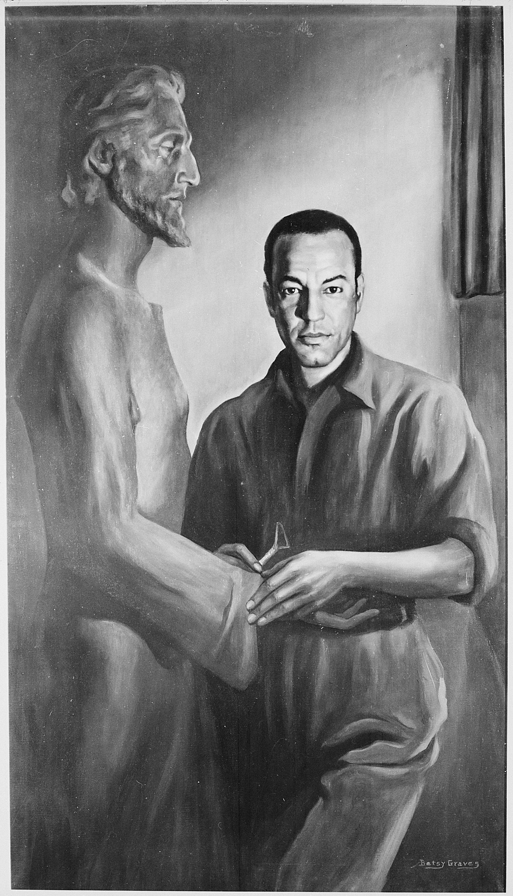 General notes: Painting